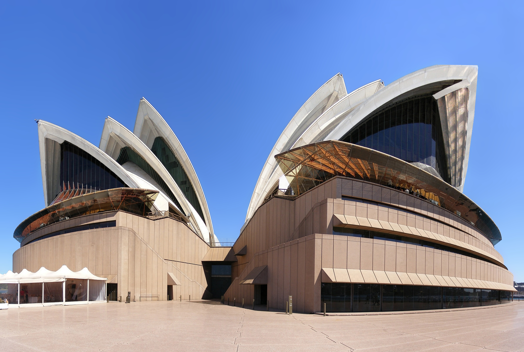 The Sydney Opera House, designer, architect and chief engineer Jørn Utzon. This picture was taken in Sydney and represents the Sydney Opera House.